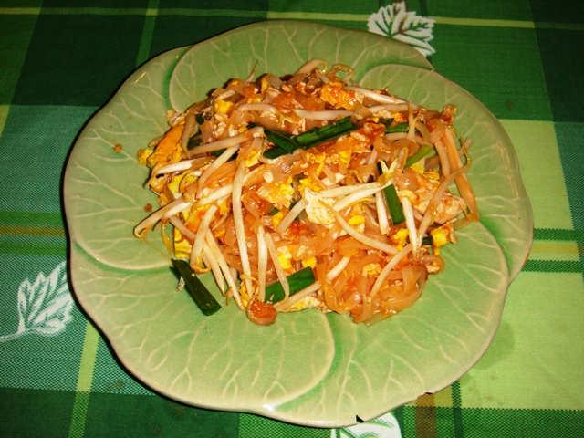 Pat Thai